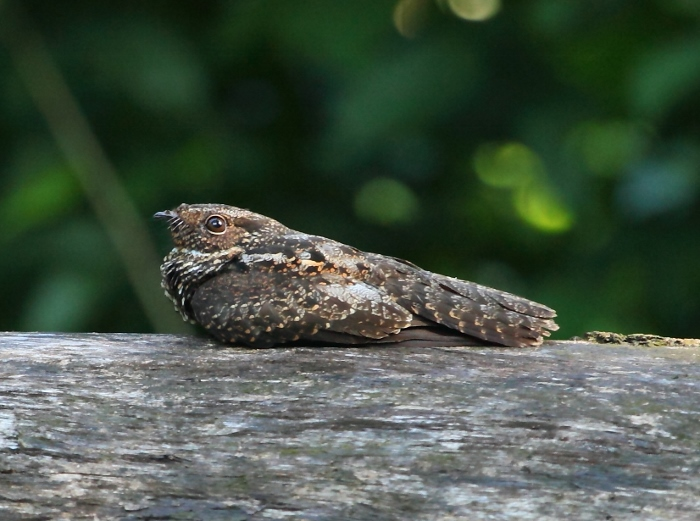 Blackish Nightjar at Apiacás - MT - Brazil